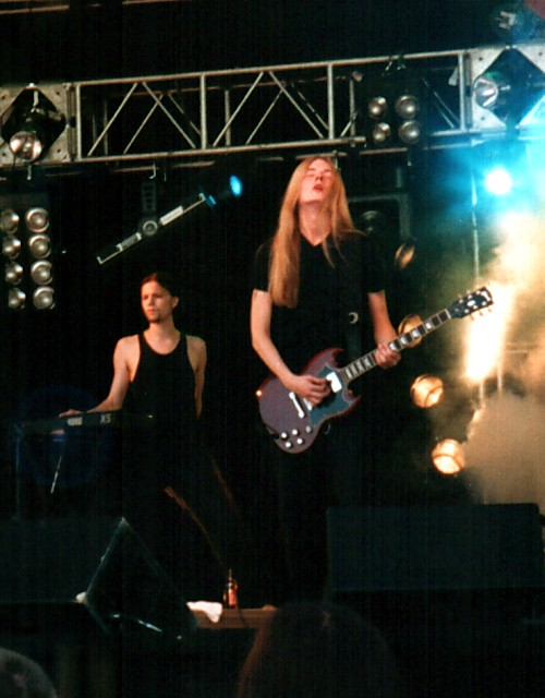 Keyboardist Jussi-Mikko "Juska" Salminen" and Mikko "Linde" Lindfors of the Finnish rock band HIM playing at the Provinssirock festival in June 1999.